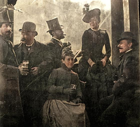 James Ensor, Ernest Rousseau, Willy Finch, Marie Ensor, Mariette Rousseau and Antonio Roiti